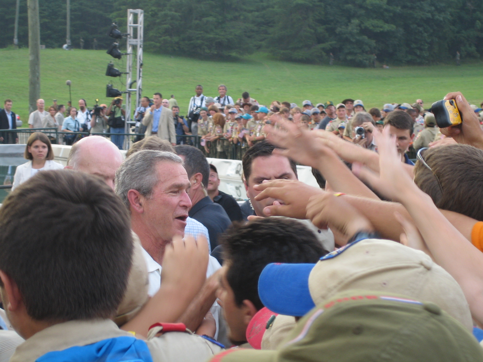 Scouts reach to meet the president during the 2005 National Scout Jamboree